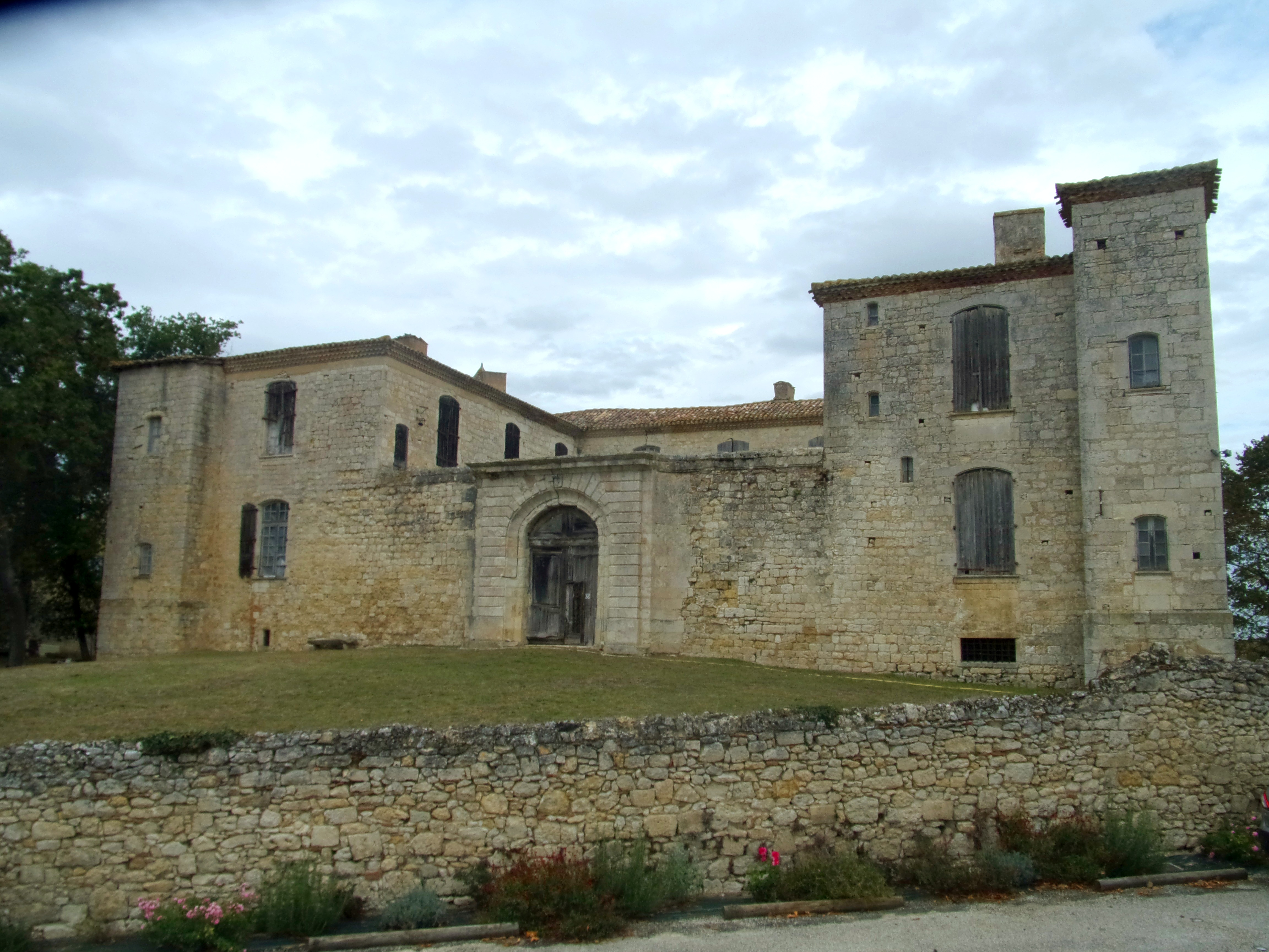 Castle of Saint-Léonard - Gers - Occitanie - France .